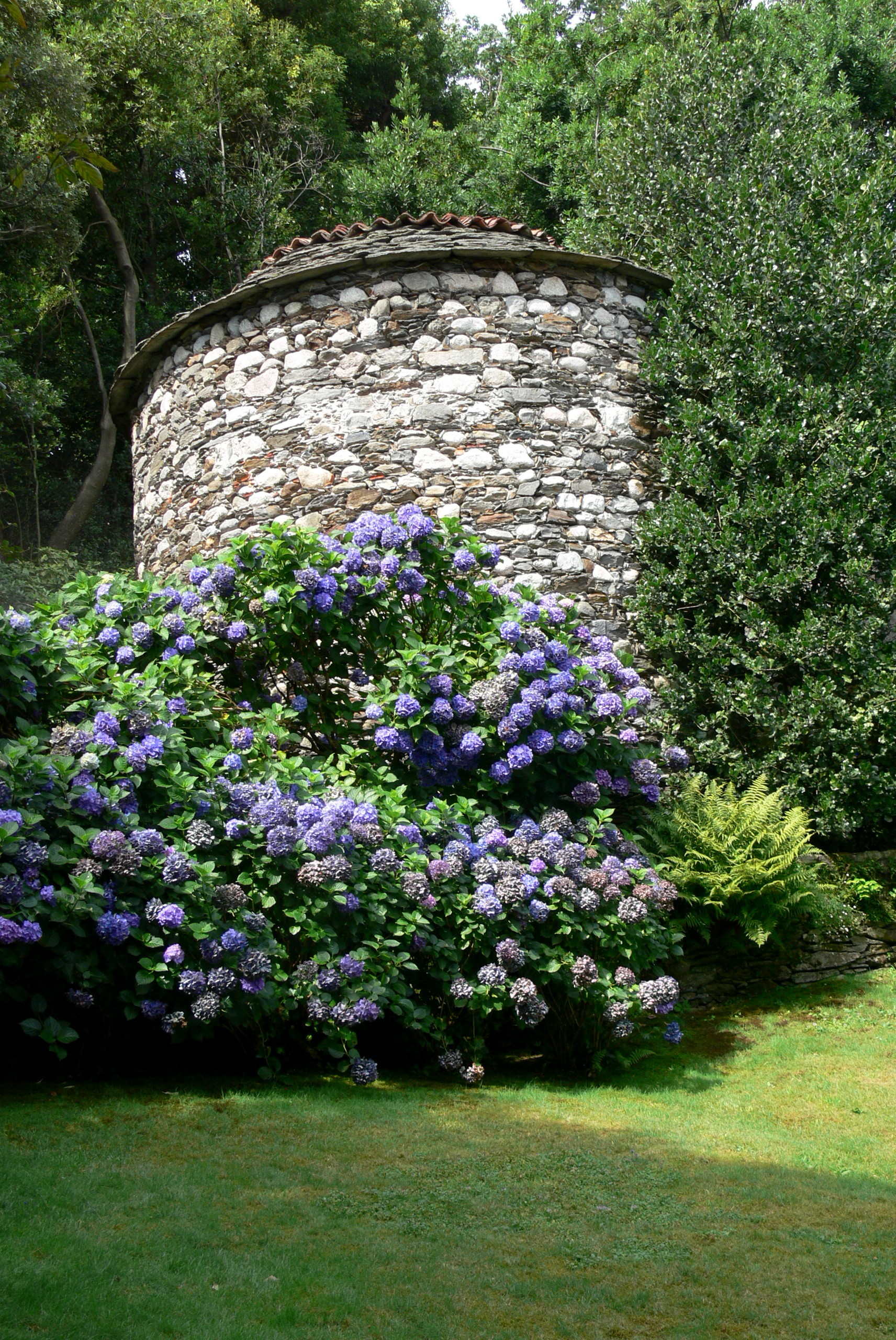 Isola Madre ( Lago Maggiore ). Botanical Gardens: View of the garden.